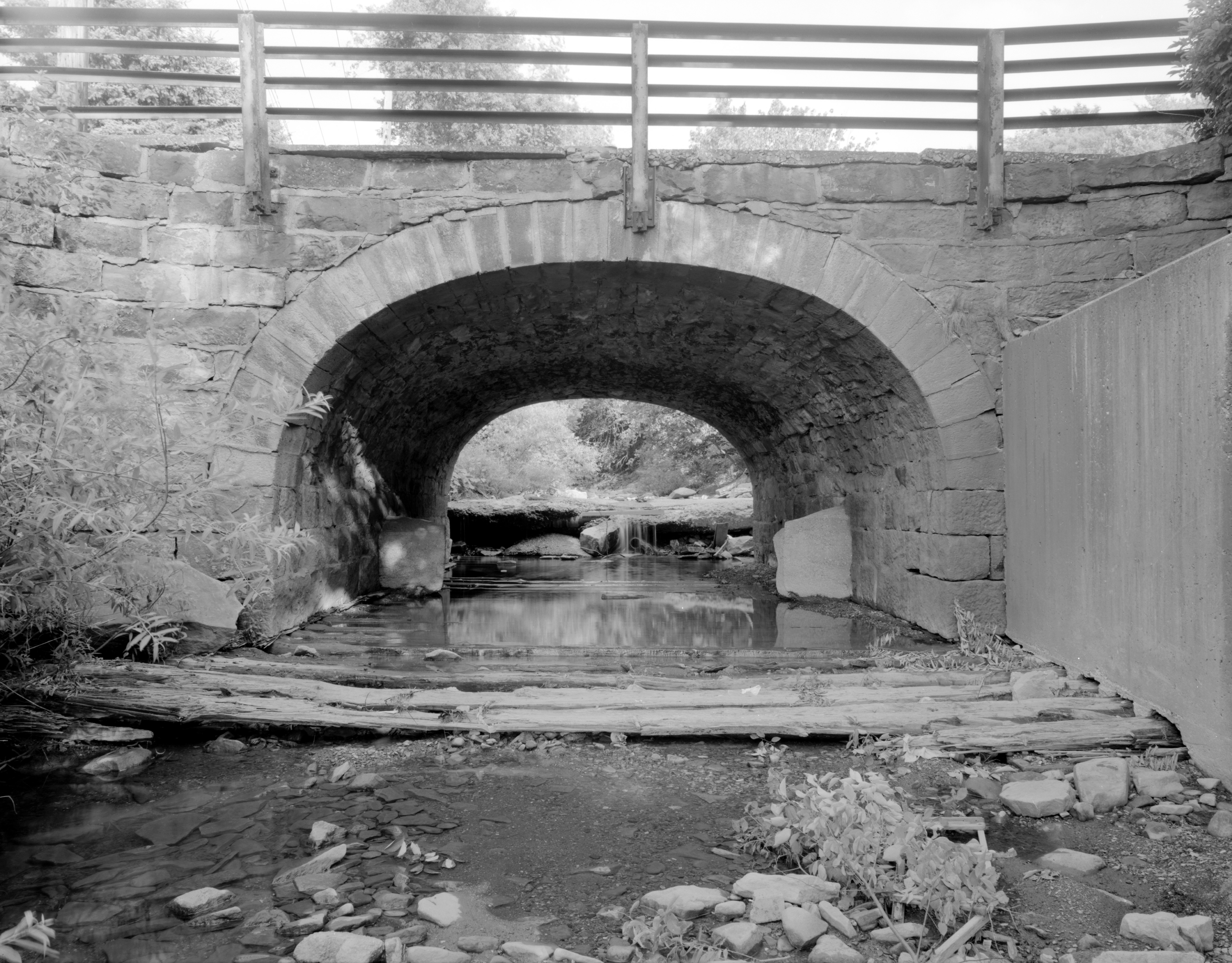 Lilly Culvert over Burgoon Run in Lilly, Pennsylvania, in the United States. The culvert was part of the Allegheny Portage Railroad system used to haul canal boats over the Allegheny Mountains. The Library of Congress (LOC) call number is "HAER PA,11-LIL,1-"; the LOC title is "Allegheny Portage Railroad, Lilly Culvert, Spanning Burgoon Run at State Route 53, Lilly, Cambria County, PA" The culvert is on the National Register of Historic Places, NRIS Number: 88000785.